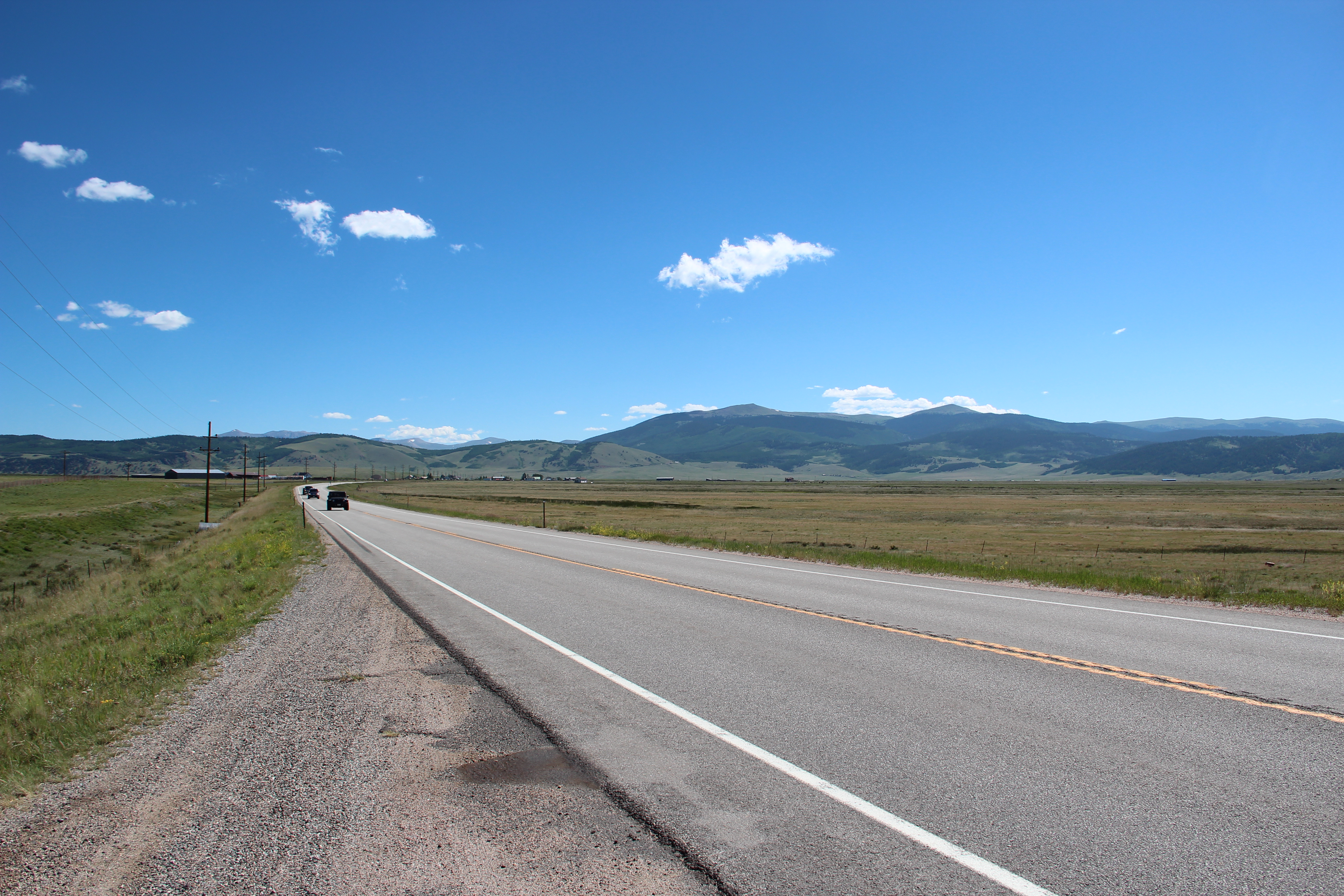 Highway 285 in South Park, July 2016